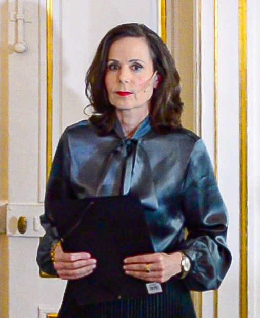 Permanent Secretary of the Swedish Academy Sara Danius announces the Nobel Prize in Literature in 2017.